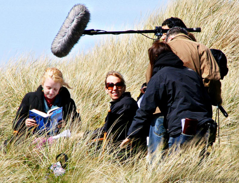 Evanna Lynch reading during filming for Harry Potter and the Deathly Hallows at Freshwater West, Pembrokeshire in May 2009.